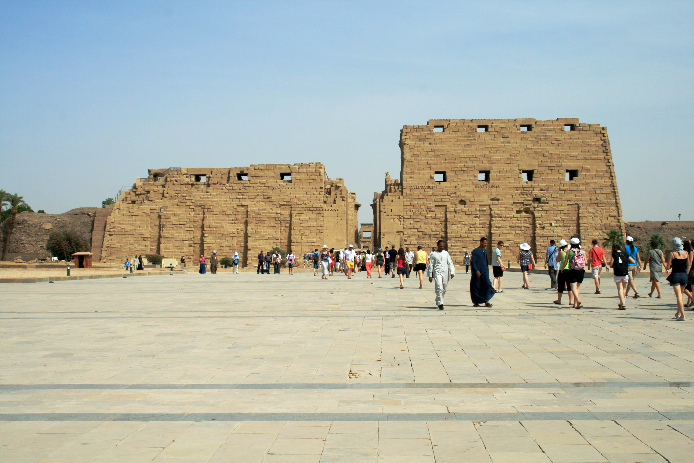 Entrance into Karnak temple complex near Luxor, Egypt